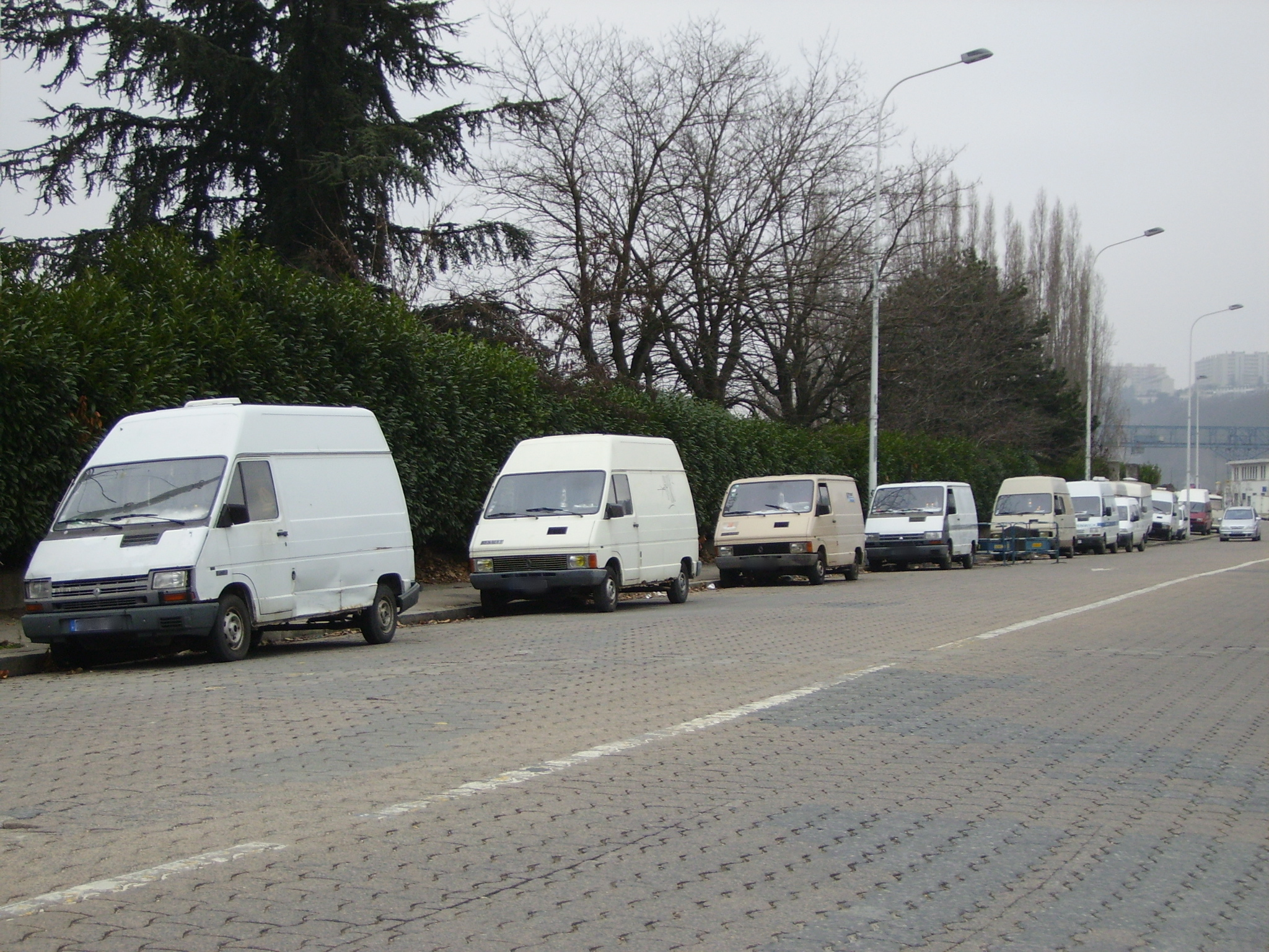 contribs